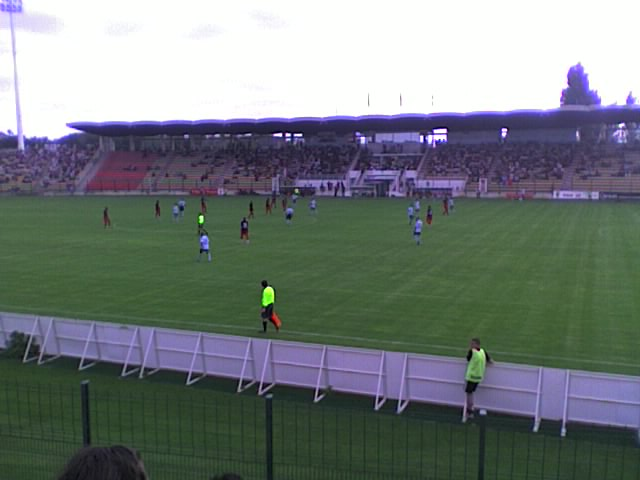 Photo of the match between Paris Saint-Germain FC and Tours FC at the Stade de la Vallée du Cher in Tours